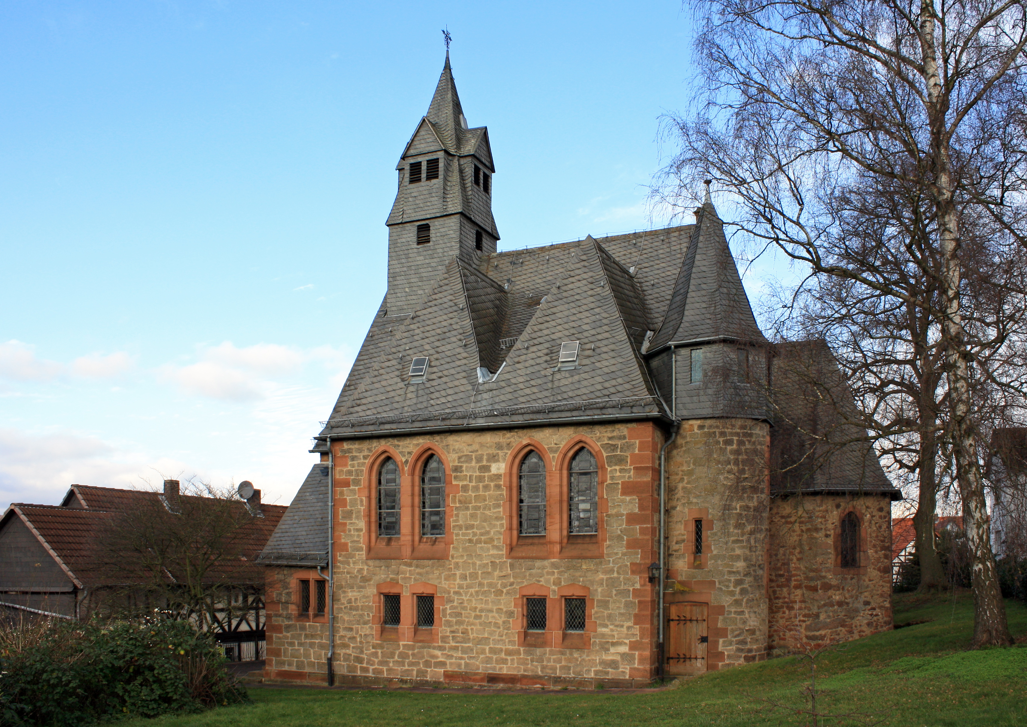 protestant church in Cappel, Marburg (Lahn), Hesse, Germany